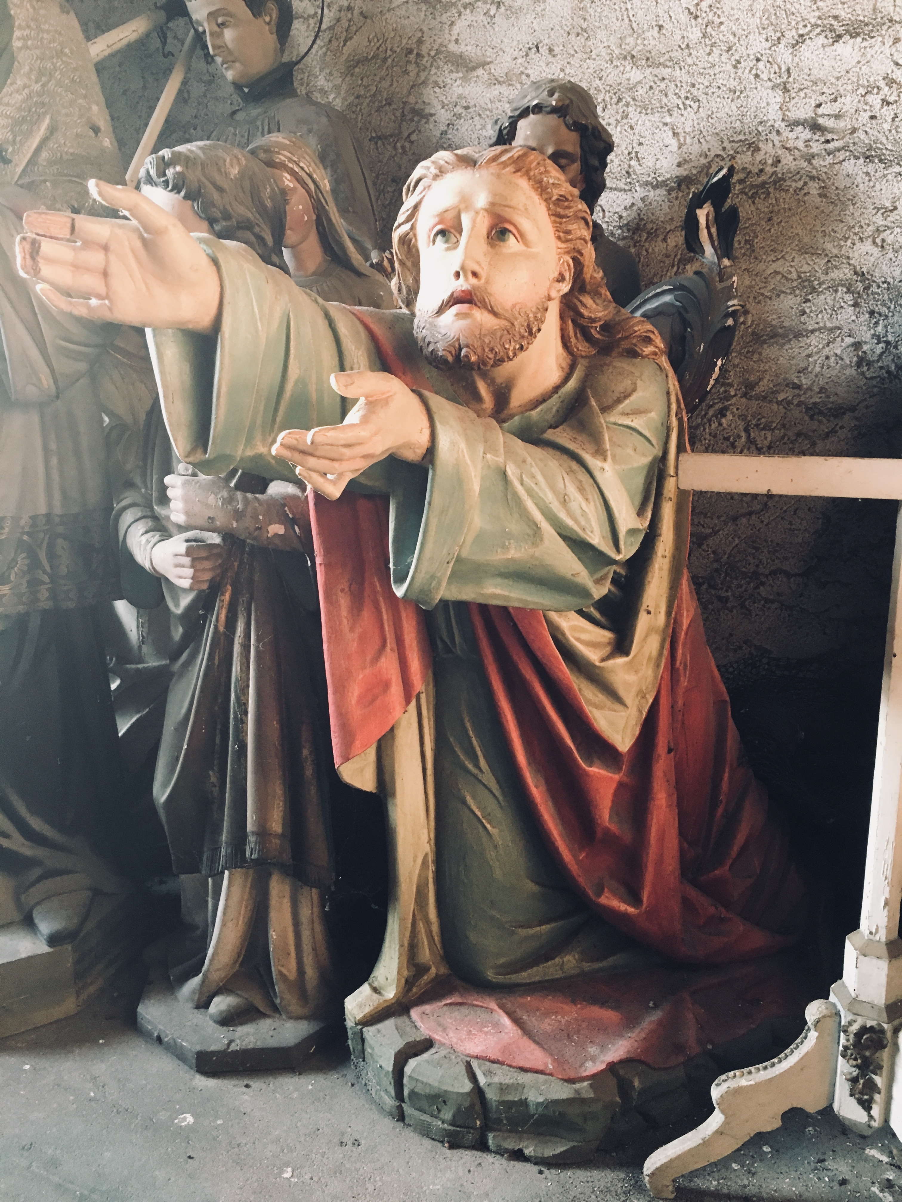 Jesus of the Mount of Olives group, clay, 1900